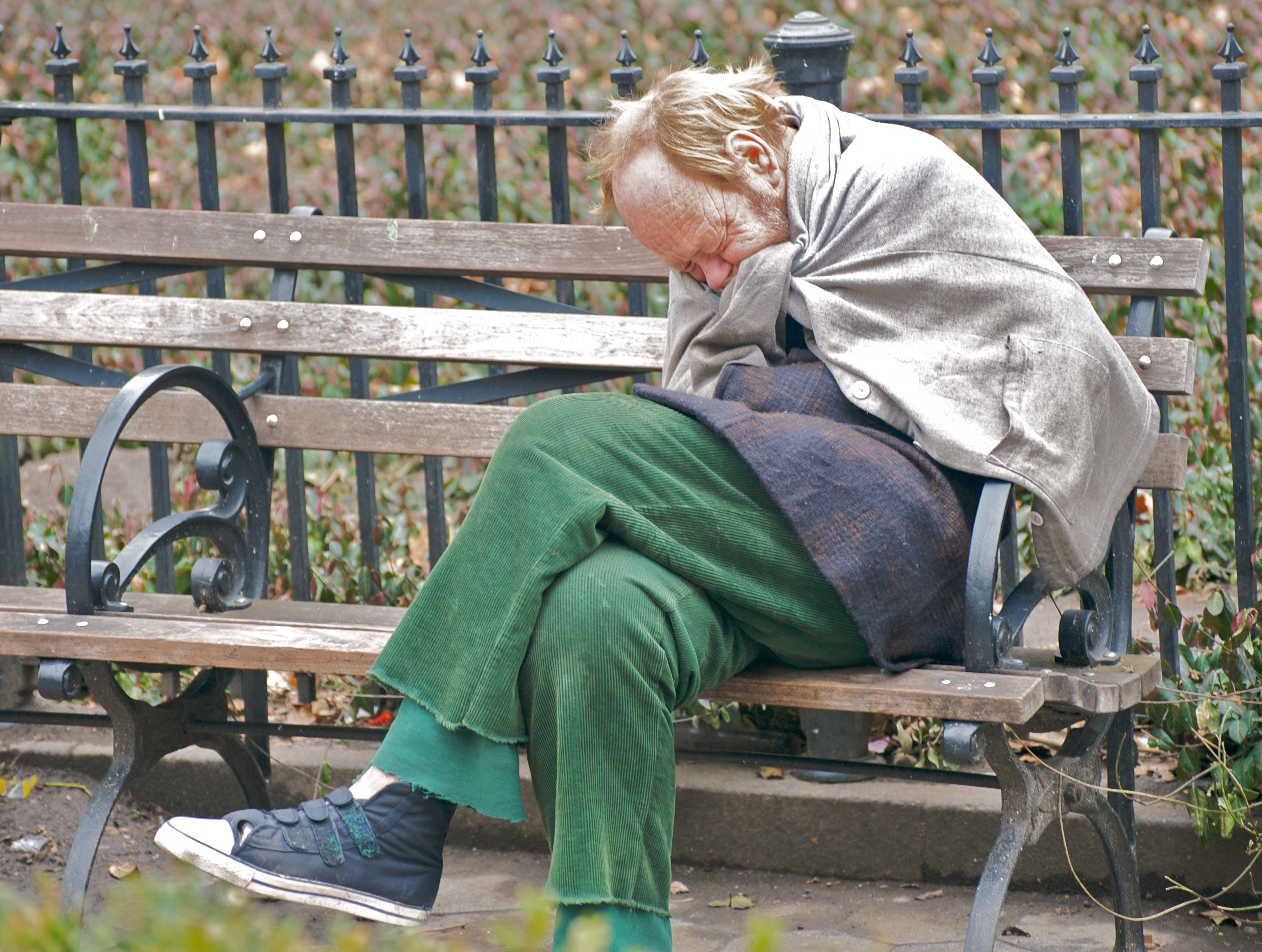 This is a continuation of a set that I created in 2009 (shown here ) and 2008 (shown here ) to show a variety of scenes and people in the small park known as Verdi Square, located at 72nd Street and Broadway in New York City's Upper West Side.